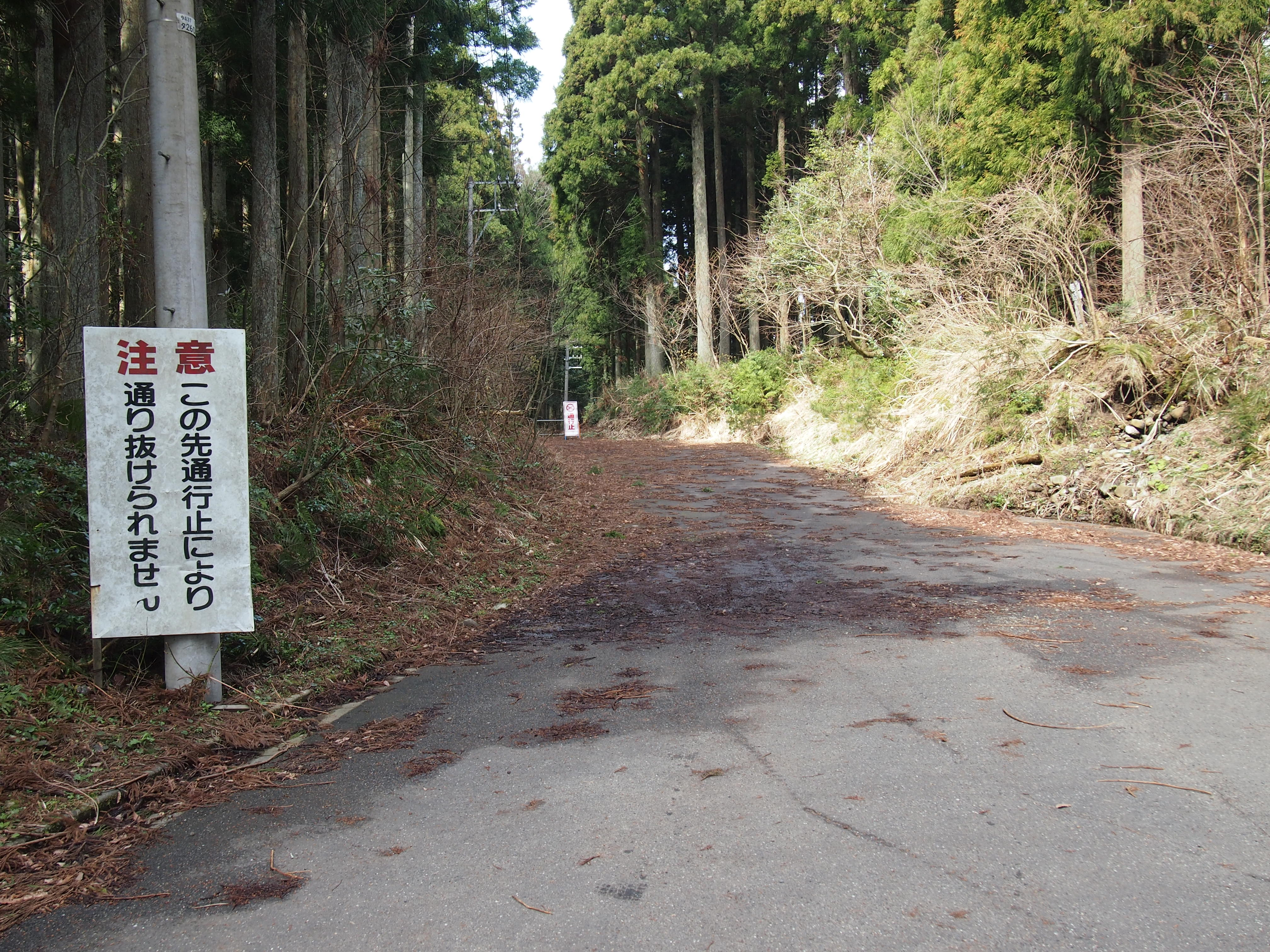 Utsurogi-pass in Tsuruga, Fukui Prefecture, Japan